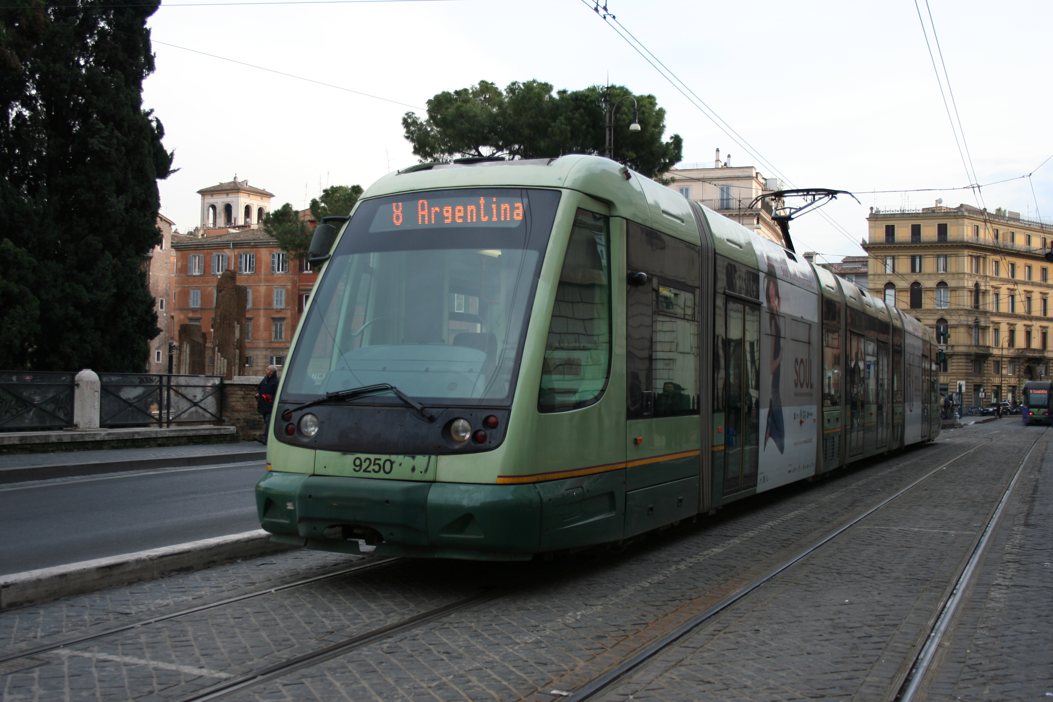 Line 8 tram terminus in Rome, via di Torre Argentina. The vehicle is an ATAC 9200 series